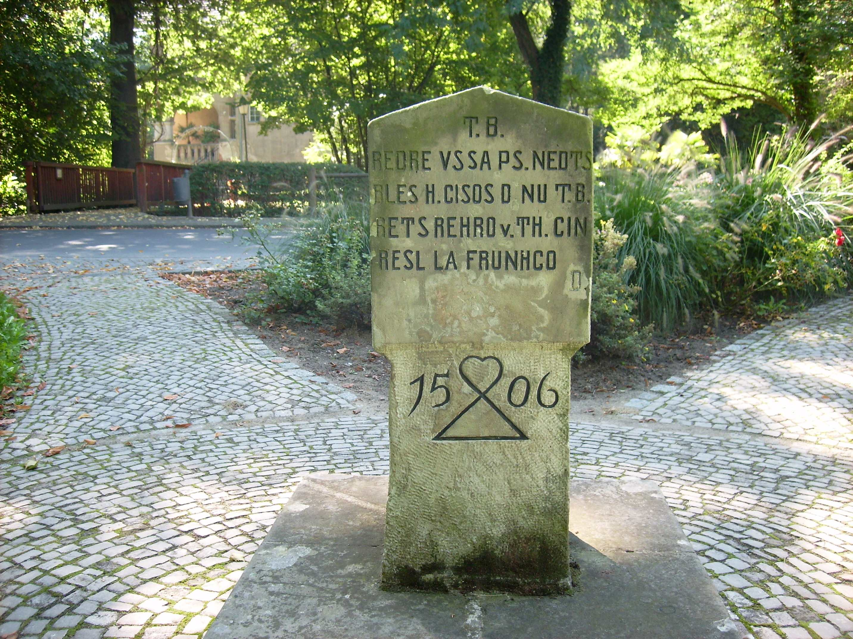 Back of the "miracle stone" at the municipal park of Herzberg/Elster (Elbe-Elster district, Brandenburg) with mysterious inscription